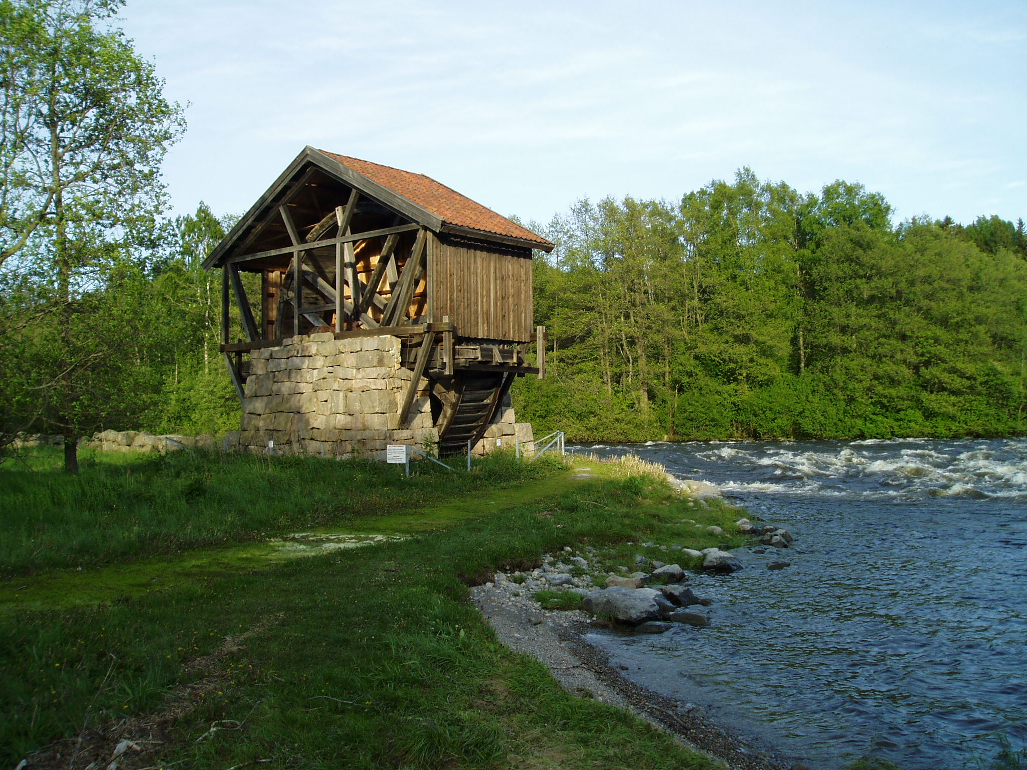 The water wheel by the river Ågårdselva in Norway.